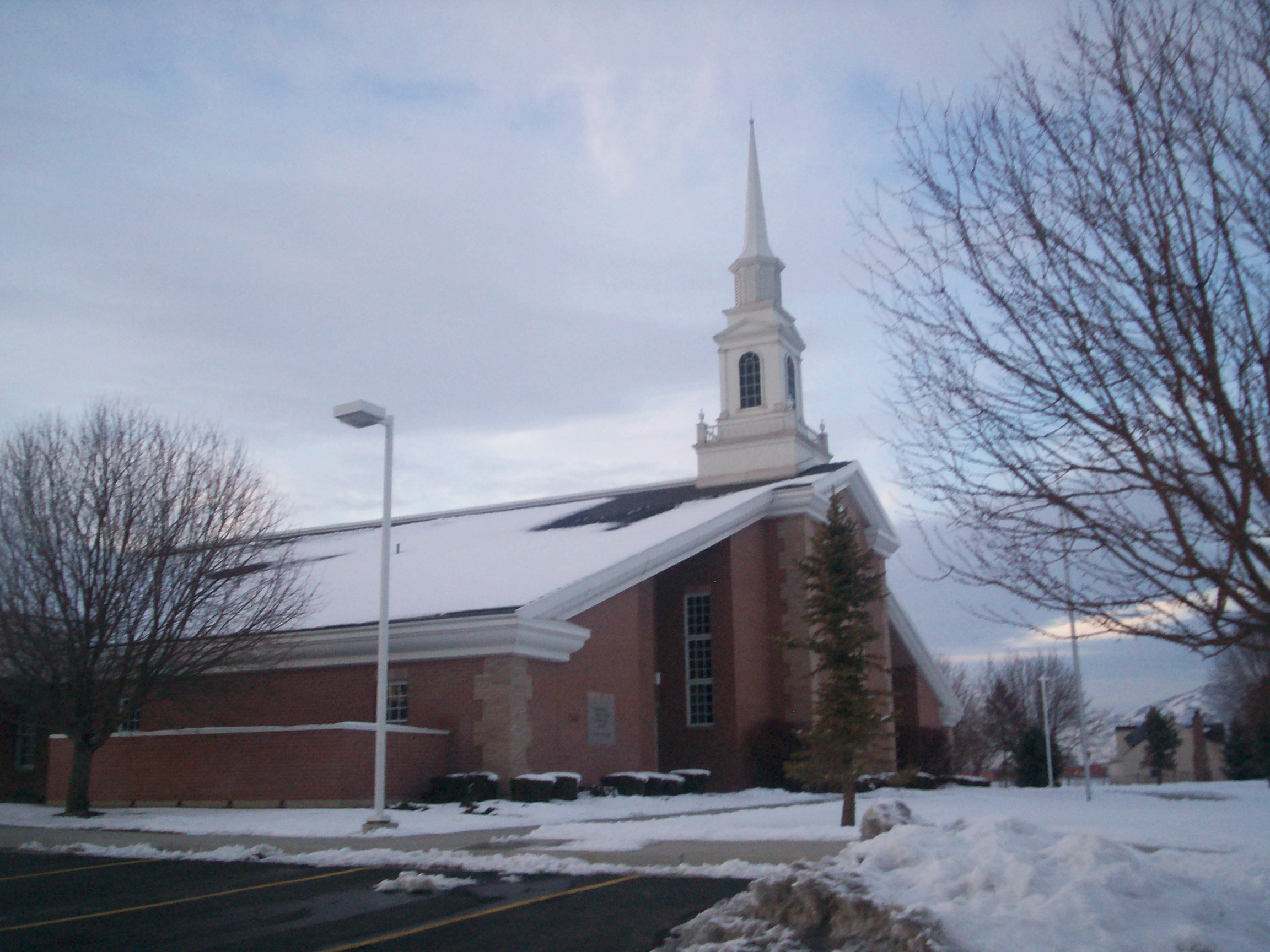 Stake center of The Church of Jesus Christ of Latter-day Saints located in Lehi, Utah.